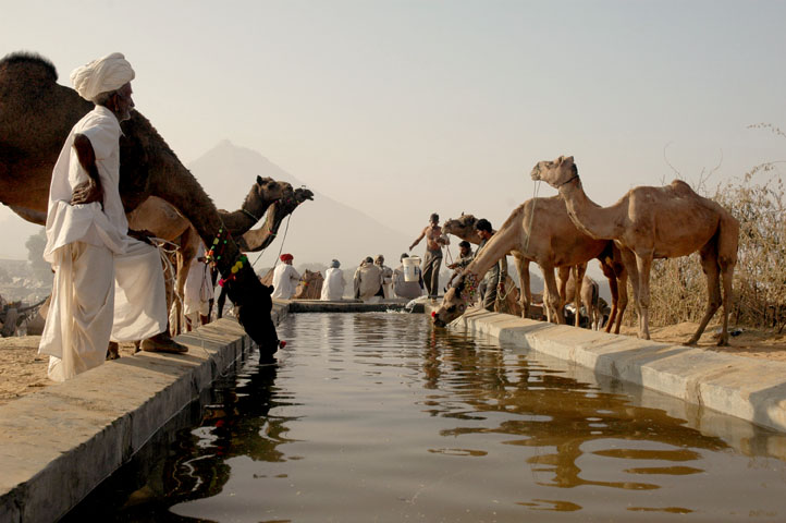 Camels at a watering point at Pushkar Camel Fair. In Expore!